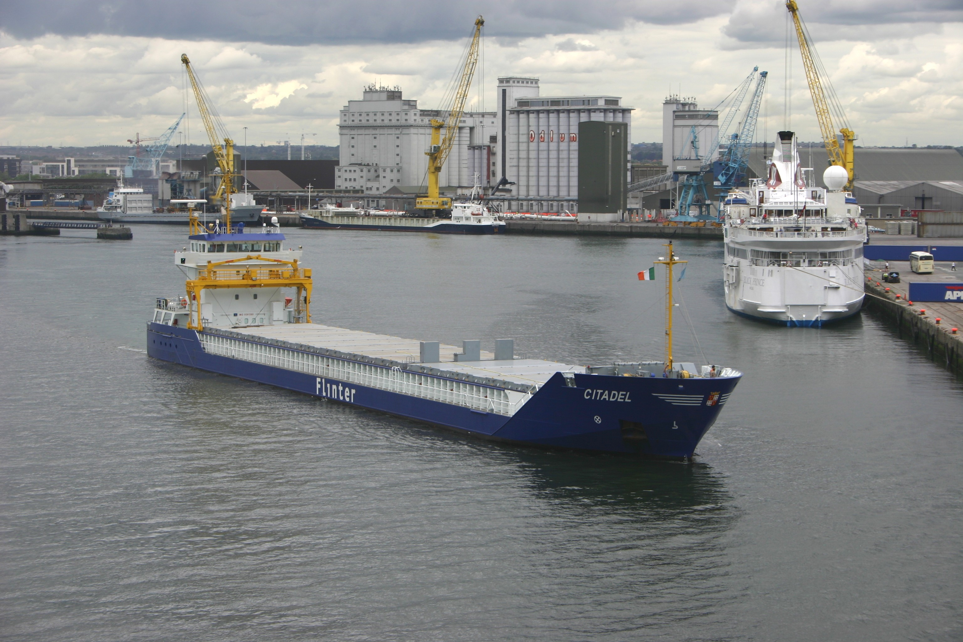 Port of Dublin (Western Basin) showing CITADEL and other general cargo vessels and cruise liner BLACK PRINCE. CITADEL IMO Number: 9361380 MMSI Number: 245977000 Callsign: PBOK Length: 111 m Beam: 14 m BLACK PRINCE IMO Number: 6613328 MMSI Number: 311163000 Length: 143.0m Callsign: C6RS2 Length: 143 m Beam: 20 m